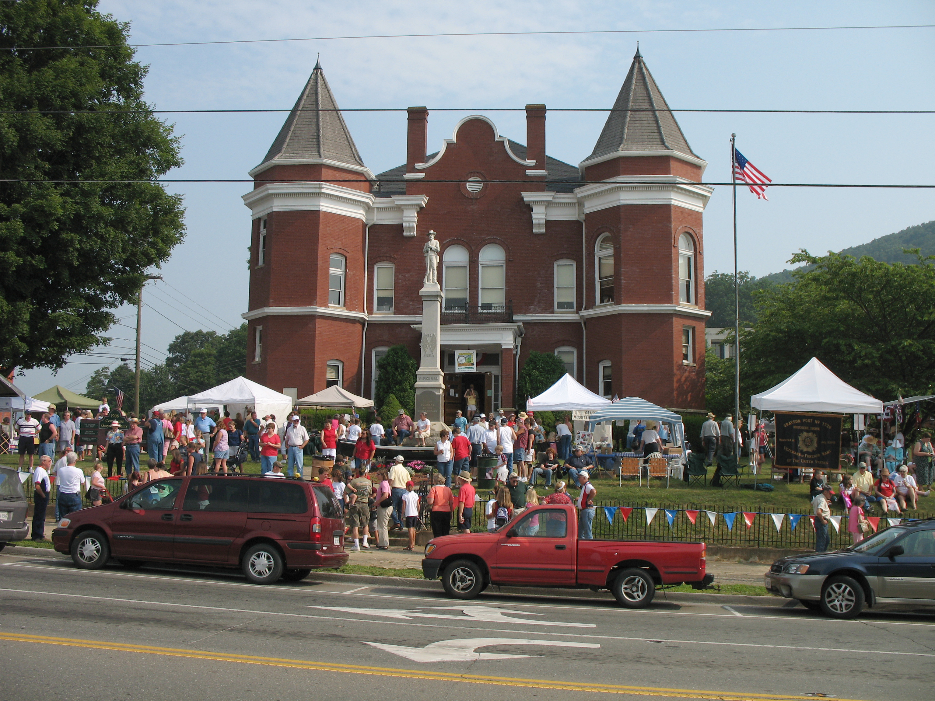 Independence VA during the annual July 4 celebration in 2006